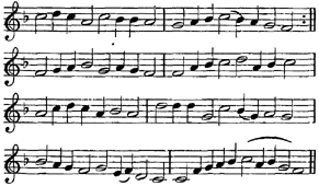 music to the hymn An Wasserflüssen Babylon by Wolfgang Dachstein, 1525, used in BWV 653 also used with the hymn Ein Lämmlein geht und trägt die Schuld